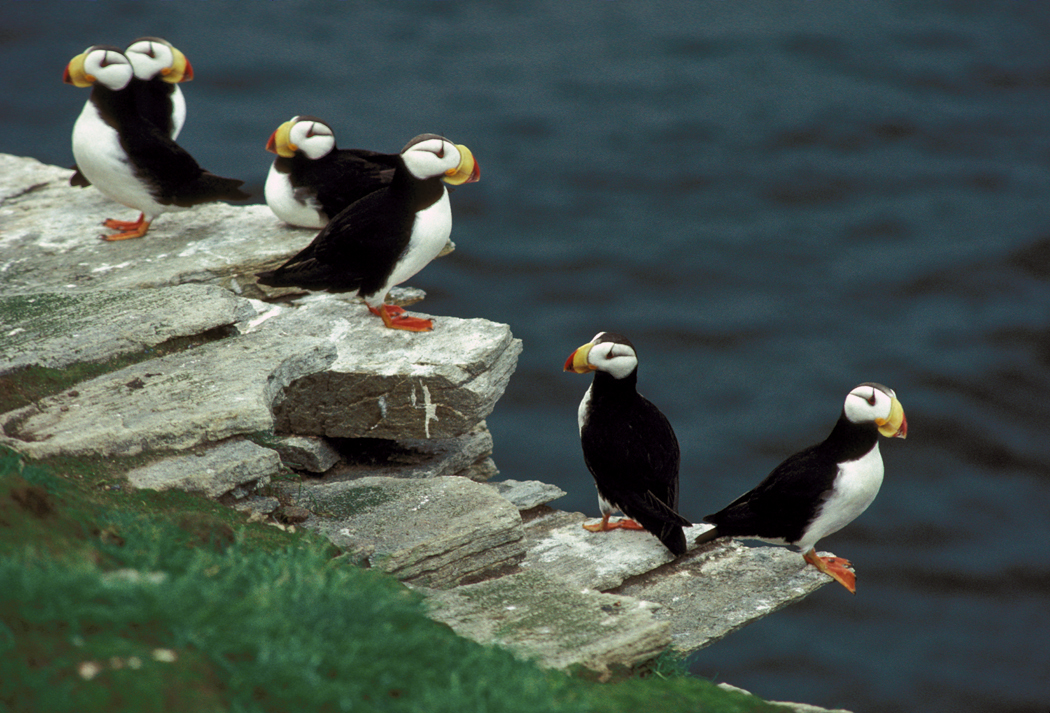 Horned Puffin (Fratercula corniculata) on Puffin Island first upload: Feb 27, 2005 - Wikipedia by User:Sabine's Sunbird